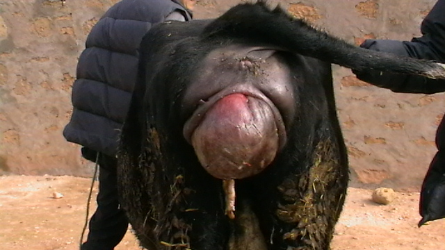 Partial vaginal prolapse, cow, rear view (with part of the placenta slipping out); the mucosae has become necrotic after some 4 days of permanent prolapse Walon: Mostraedje do ro, a ene vatche, veyou d' padrî (avou on boket d' netieure ki brike foû; li fene pea a s' grangnener, après ene cwatrinne di djoûs di forboutaedje